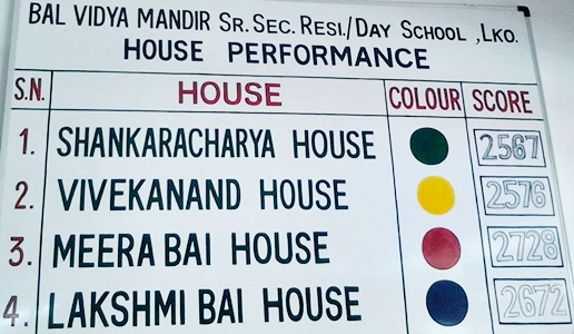 BVM House Performance Board (March 2013)